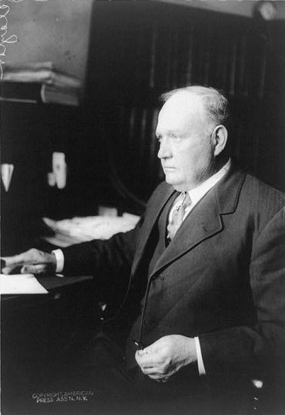 Henry De Lamar Clayton, Jr. (1857 - 1929), U.S. Representative from Alabama